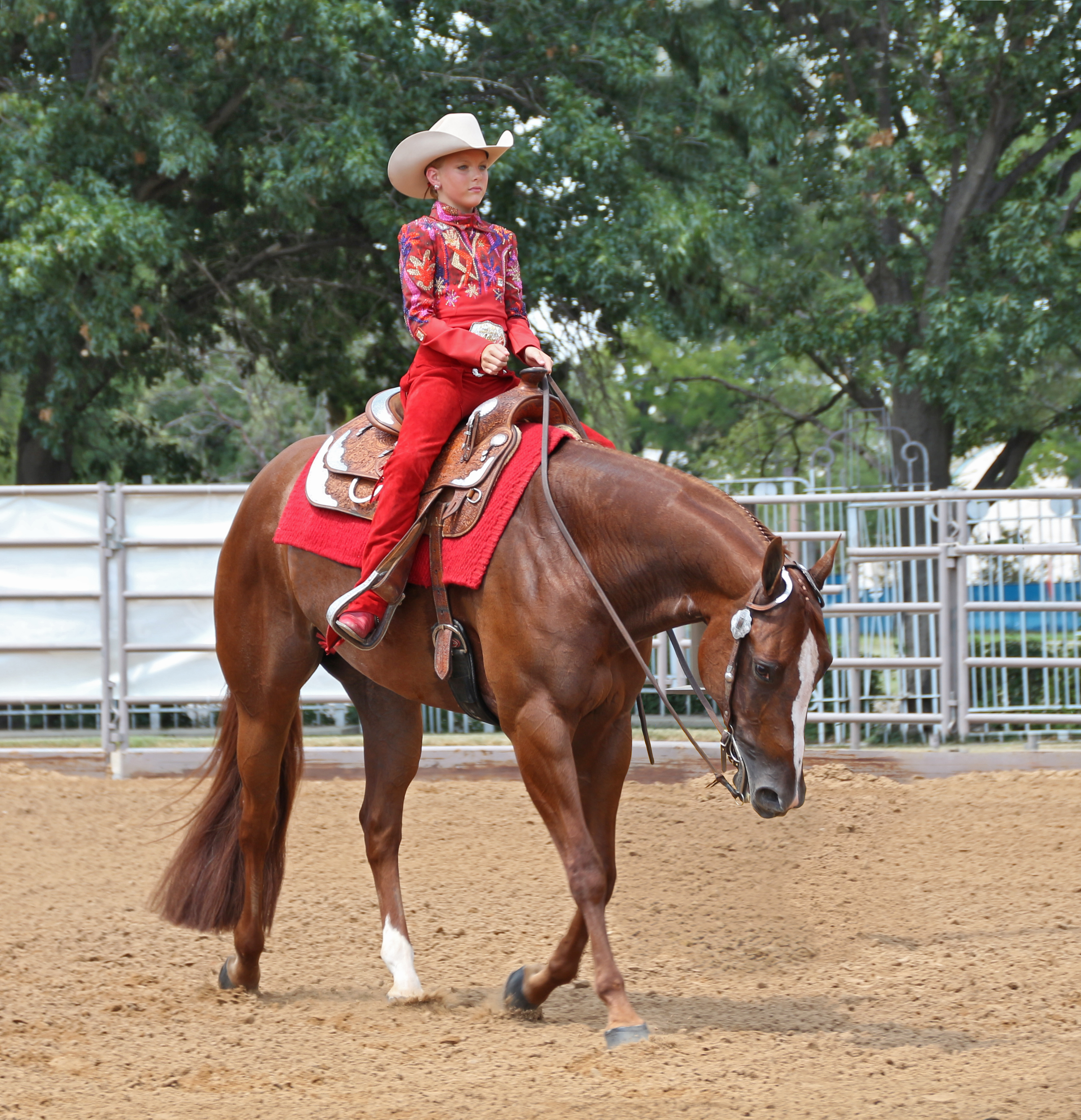 American Quarter Horse at a slow trot.